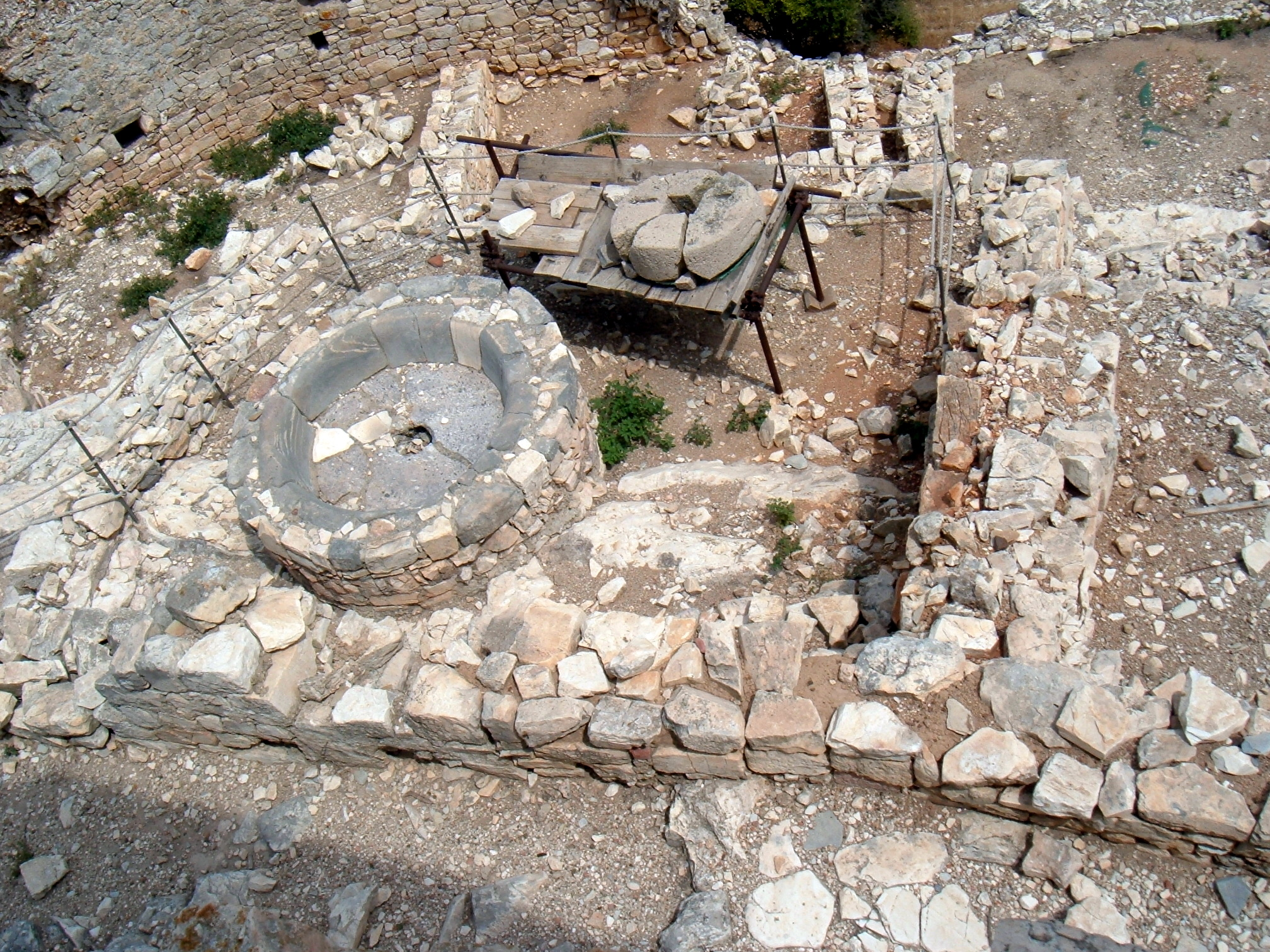 Rocca San Silvestro, a medieval rocca located in Campiglia Marittima, Tuscany, Italy. The olive press (il frantoio).